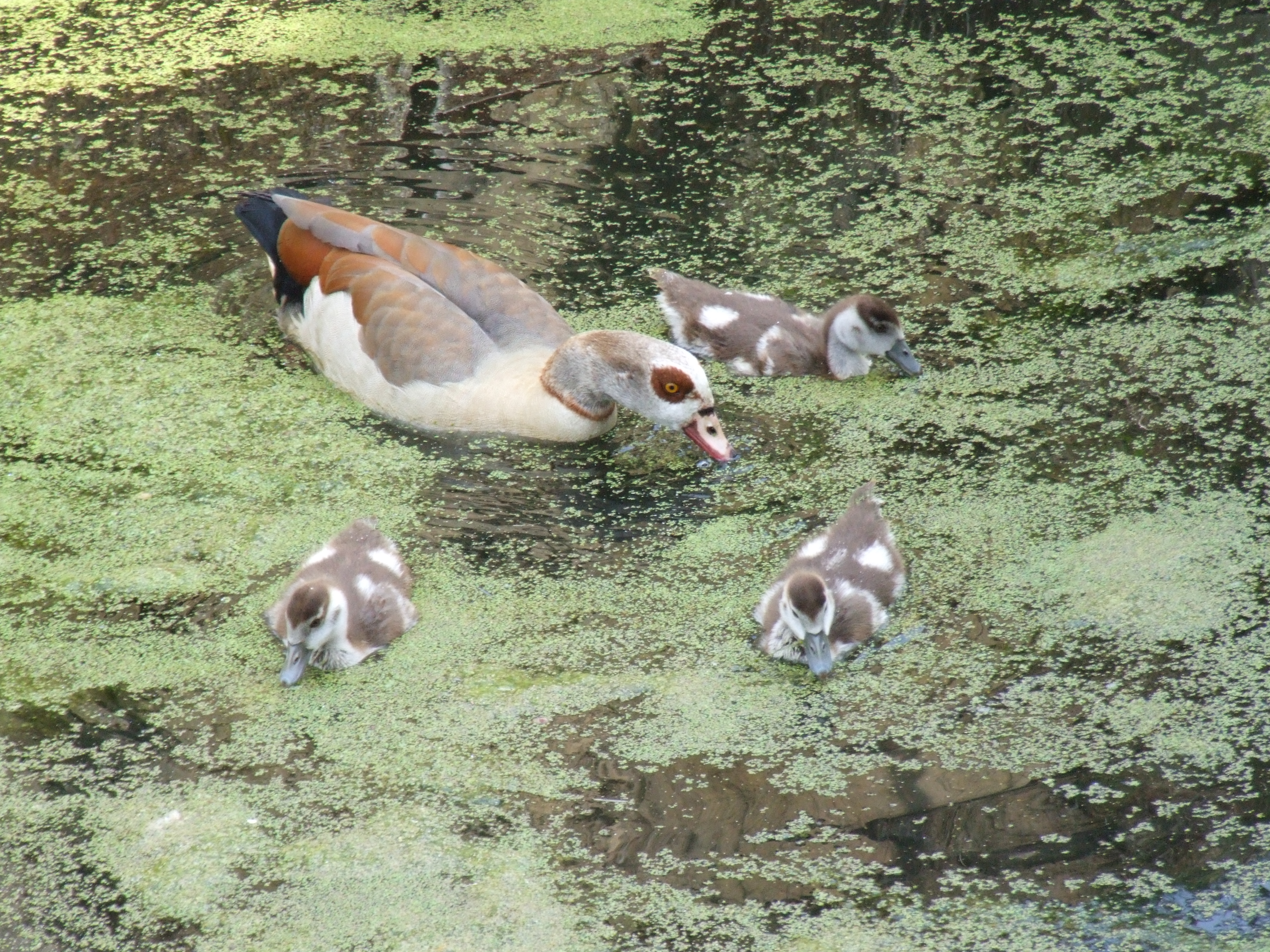 Egyptian Goose with three gosling at GaiaPark Kerkrade Zoo, Netherlands.